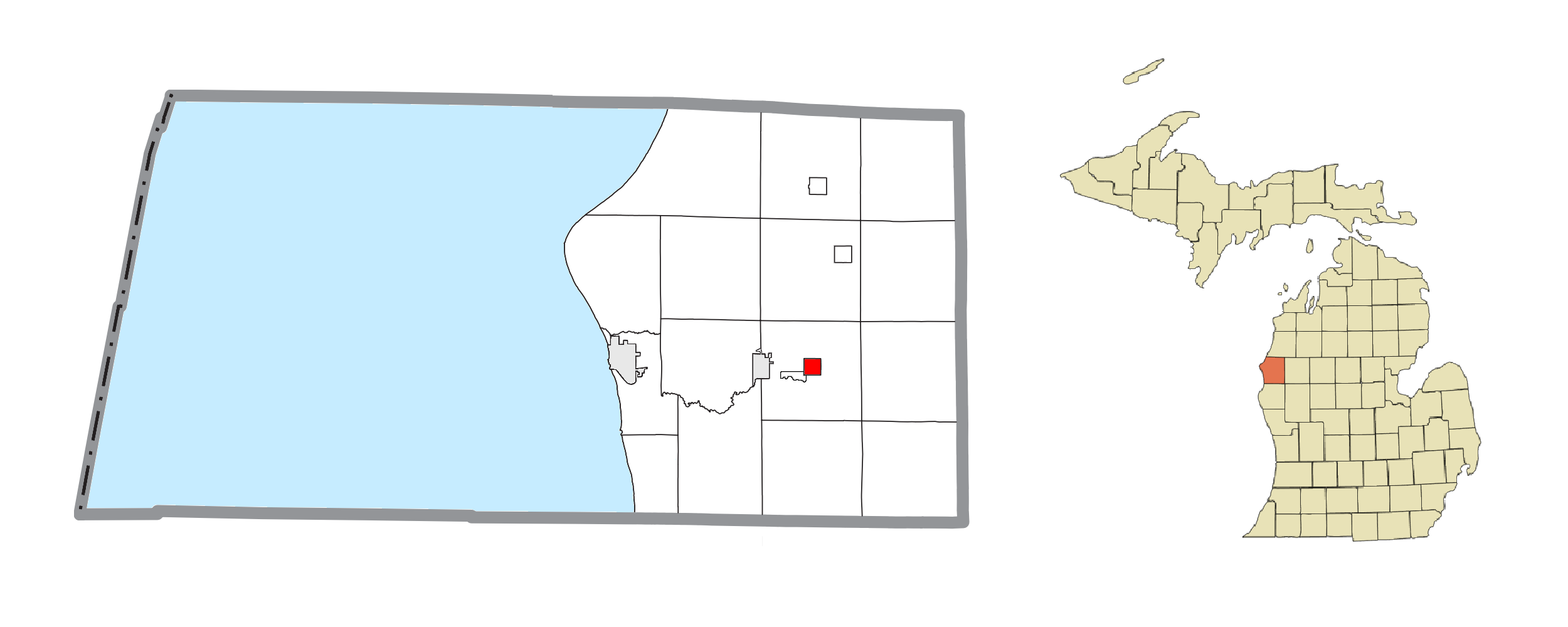 Custer, MI